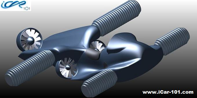 Rendering of 'iCar 101 Ultimate' flying motorbike